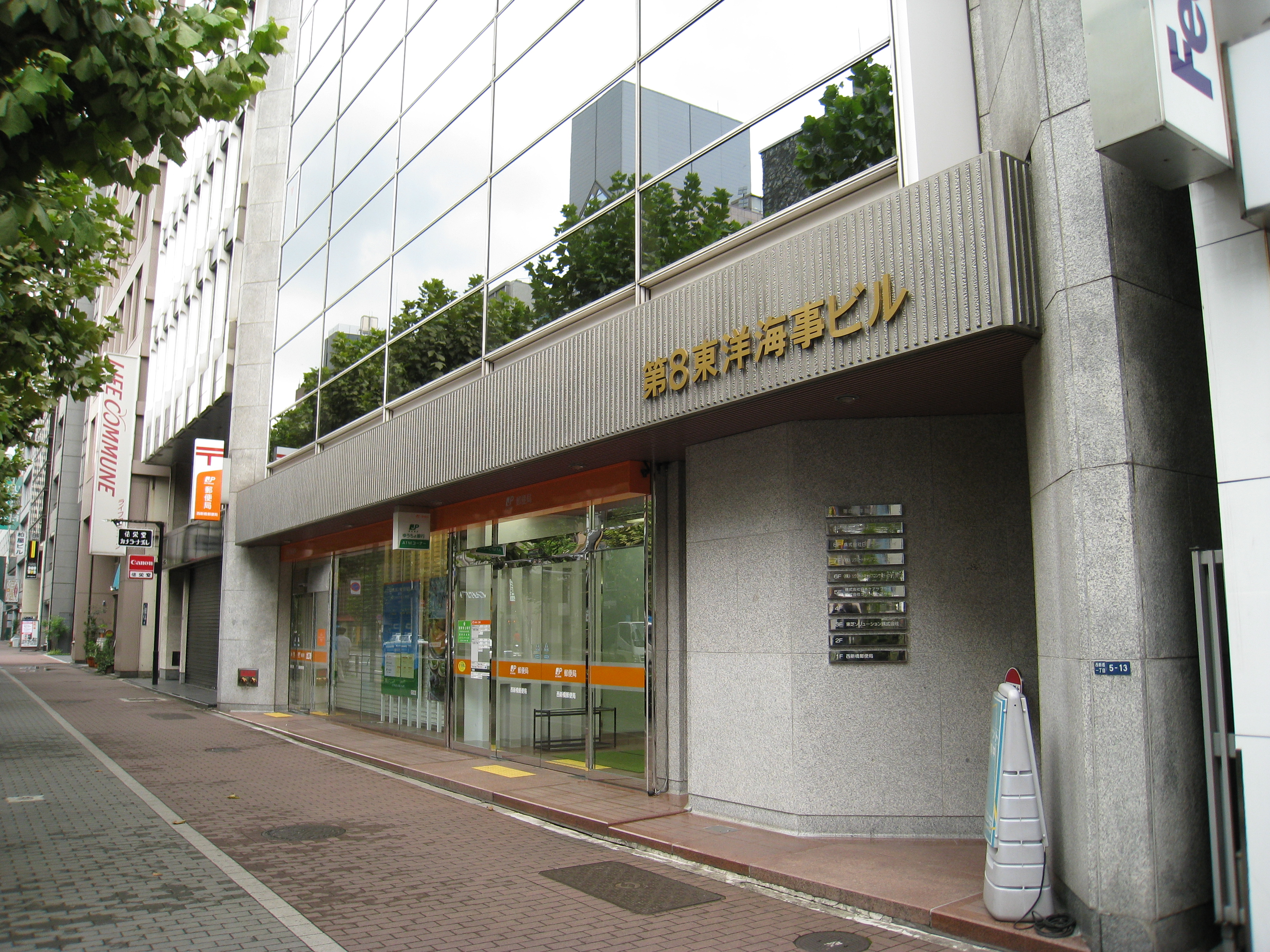 Nishishinbasi postoffice. Minato-ku, Tokyo, Japan